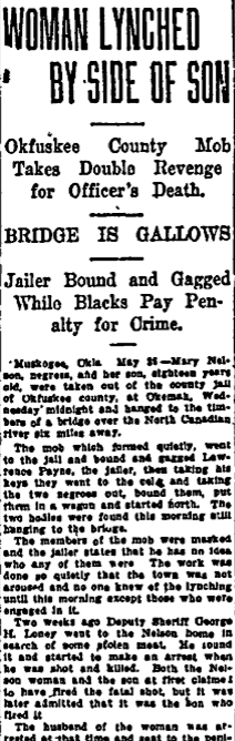 The Daily Oklahoman, 26 May 1911, reporting on the lynching the day before of Laura and L.D. "Lawrence" Nelson in Okemah, OK.